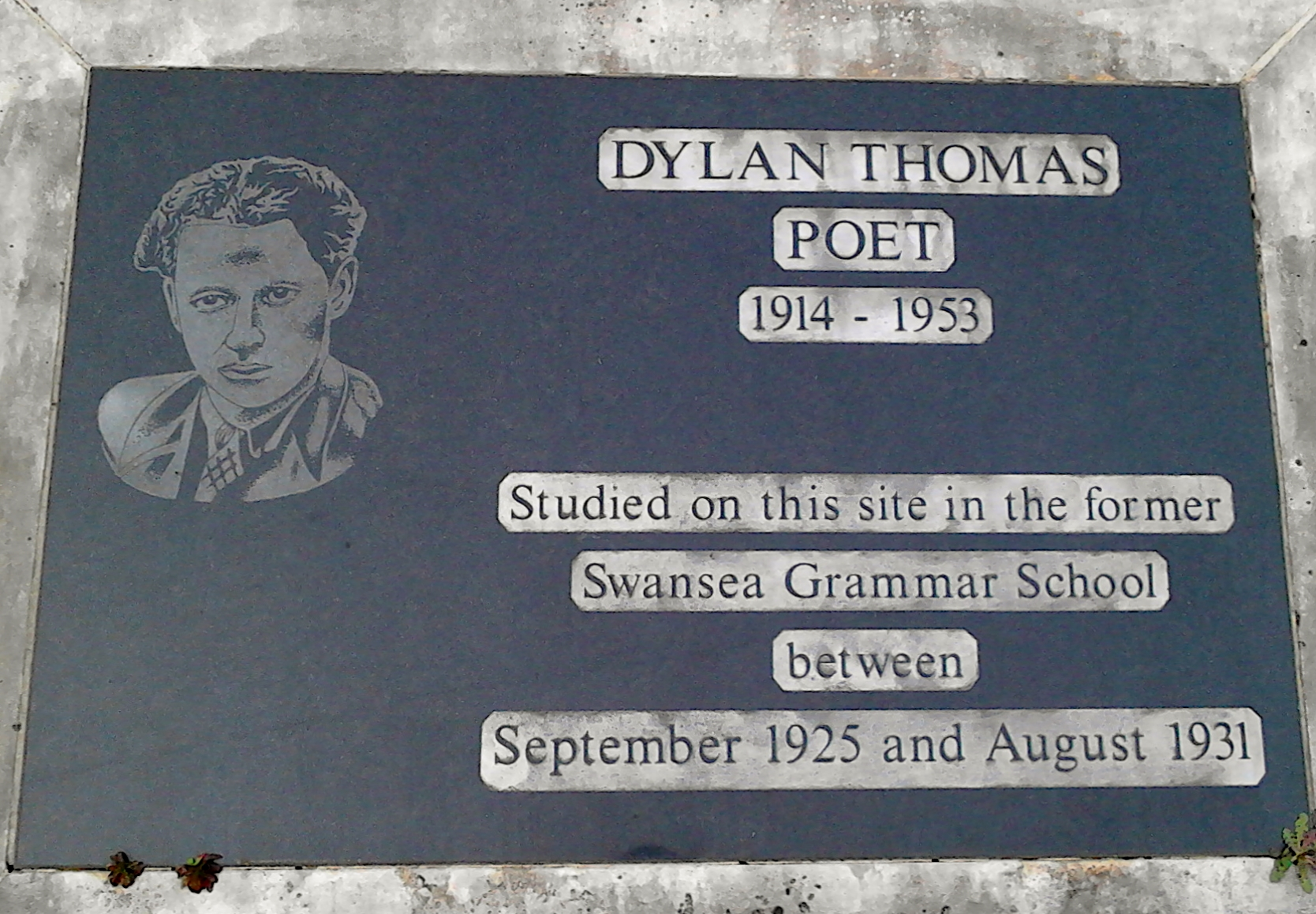 Dylan Thomas plaque displayed on former site of his school, Swansea Grammar School